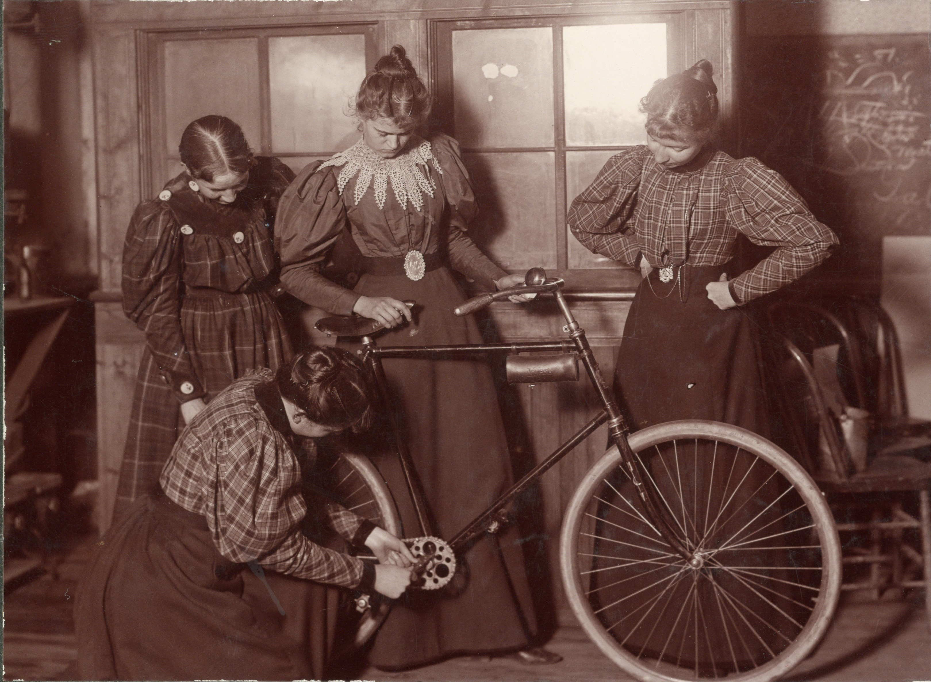 Title: Women Repairing Bicycle, c. 1895 Creator: Unknown Date: 1895-01-01 Description: Sepia tone photograph of a young woman repairing parts of a bicycle while three others watch and help her. Caption on separate sheet #1: Faculty-Early Days Activities. Caption on sheet #2: Upper left. Faculty women, kneeling is Miss Prep school. Notes: Stamped: Picture Collection, Library Montana State University Bozeman. On sheet of cardboard with photos no.136-138. Clothes circa 1895. Physical Description: Photographic print: Sepia Tone Subjects: Bicycles and bicycling--Maintenance and repair Preparatory schools--Montana Keywords: women, bicycles & tricycles, students Photograph ID: parc-000135 • I represent Montana State University Library and we are releasing this image into the Creative Commons.